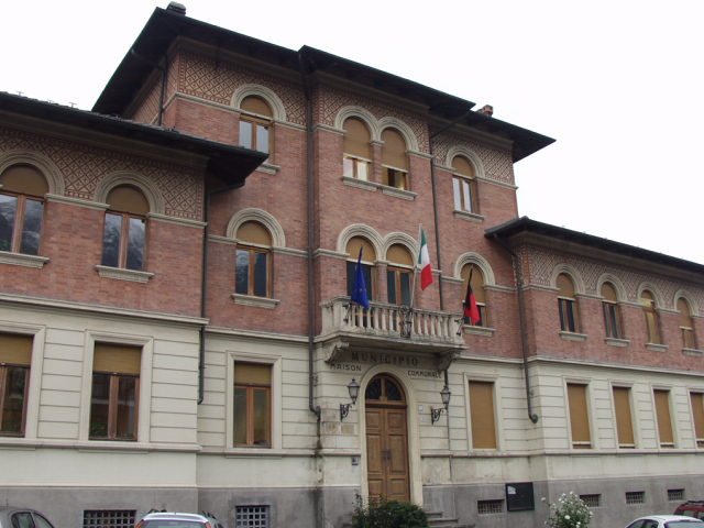 City hall of Quart (Aosta Valley, Italy)